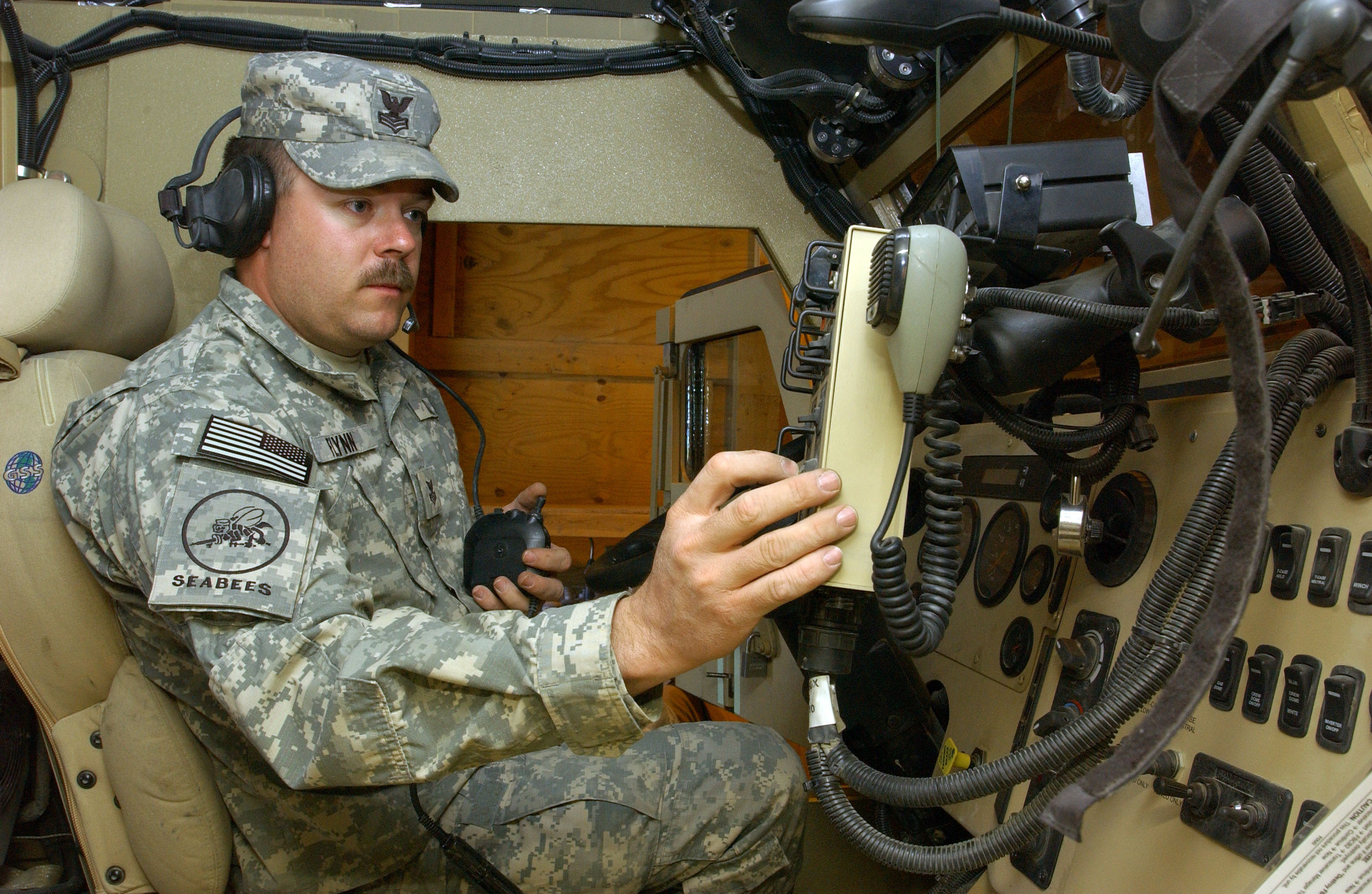 PAKTIKA PROVINCE, Afghanistan (March 19, 2010) Petty Officer 1st Class Shannon Flynn, the non-commissioned officer-in-charge of maintenance for the Paktika Provincial Reconstruction Team, conducts maintenance on the communications system in a mine resistant ambush protected vehicle at Forward Operating Base Sharana. Flynn is deployed from Amphibous Construction Battalion (ACB) 1, in Coronado, Calif. (U.S. Air Force photo by Master Sgt. Demetrius Lester/Released)